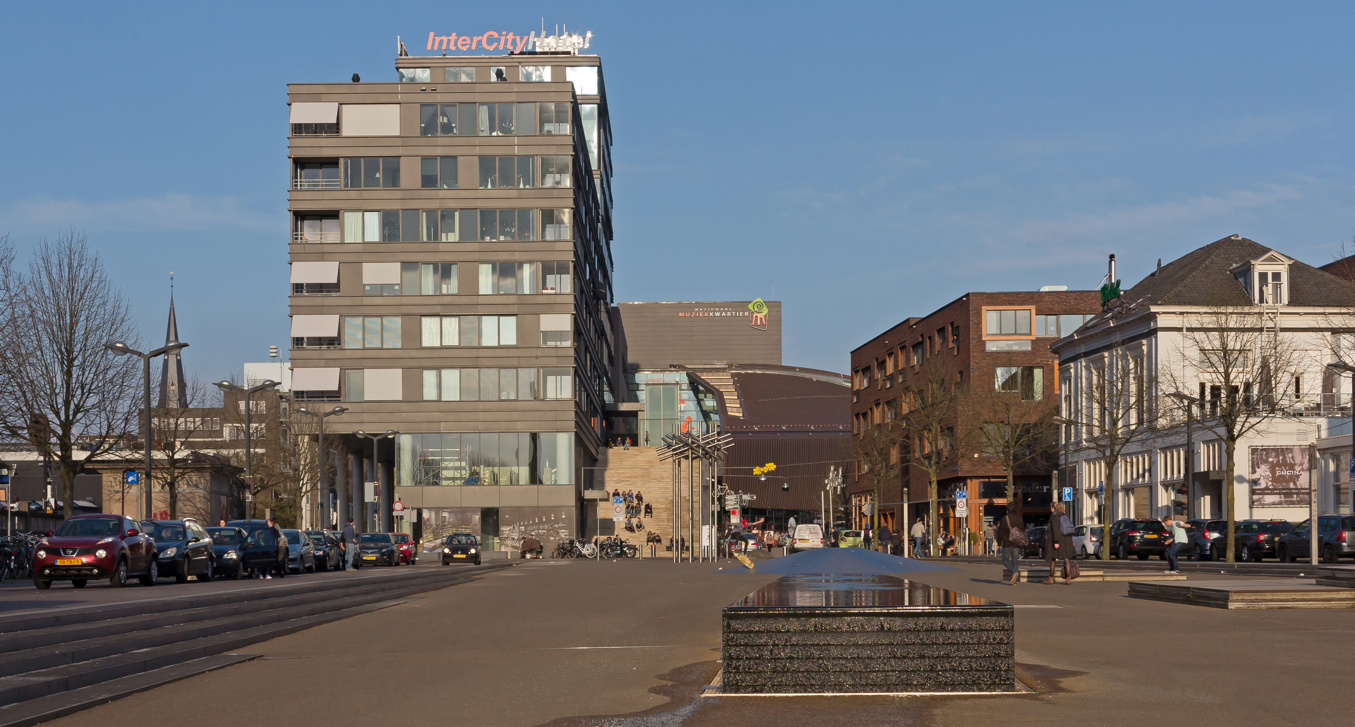 Enschede, square before the railway station (het Stationsplein)